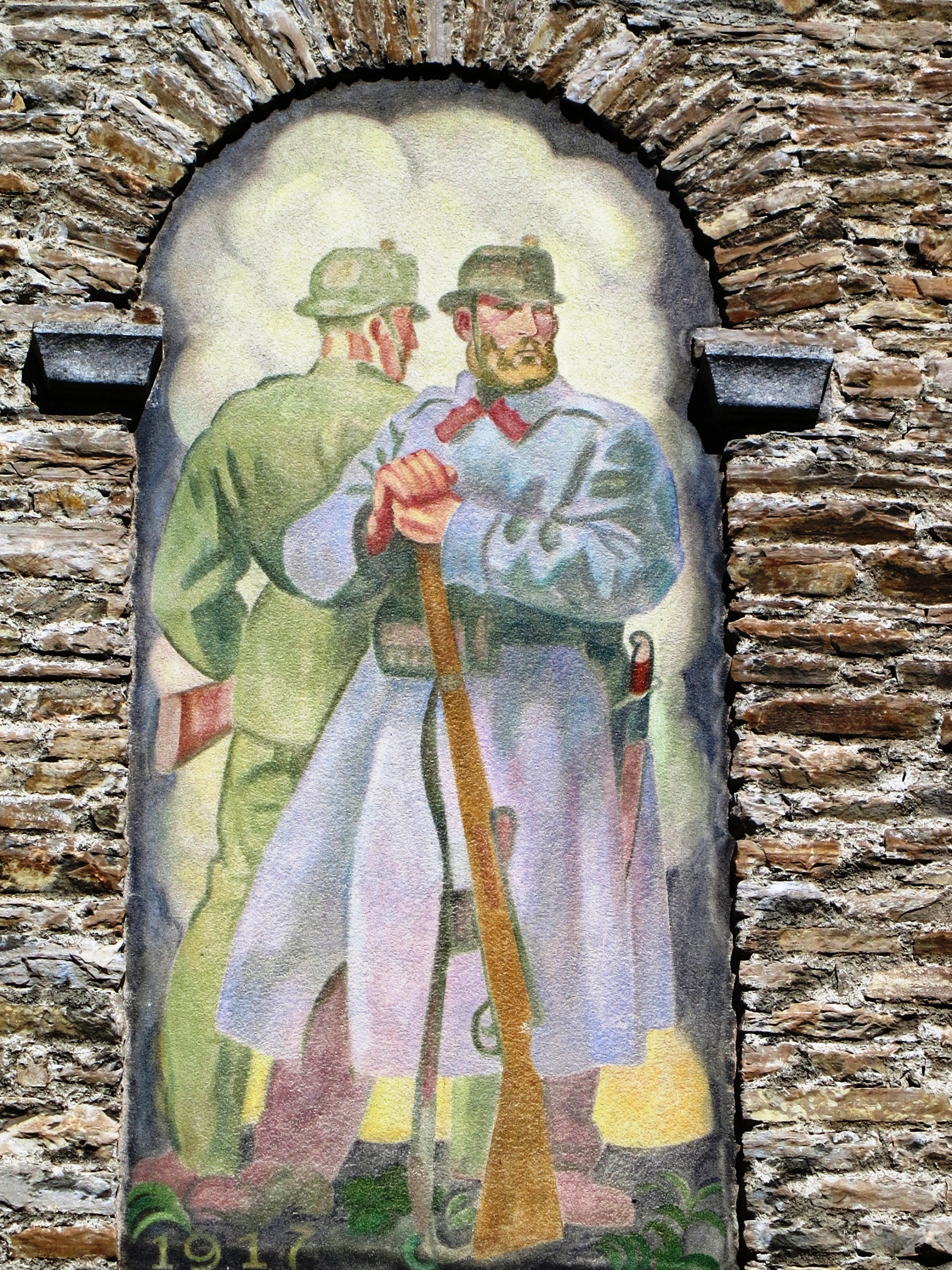 Soldatenstube Andermatt UR, Schweiz